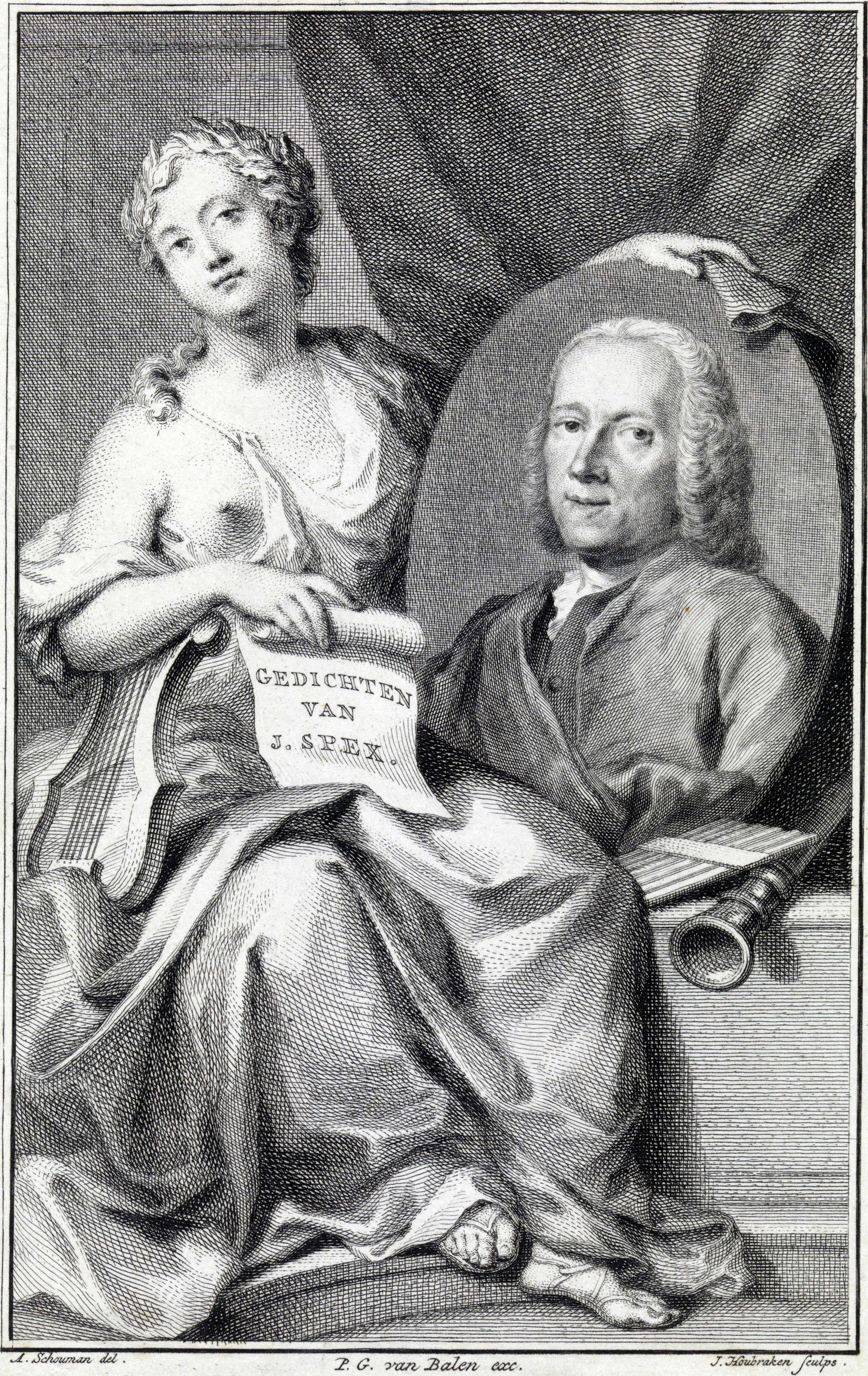 Jacob Spex (1704-1775), jurist, notary attorney and poet from The Hague, the Netherlands